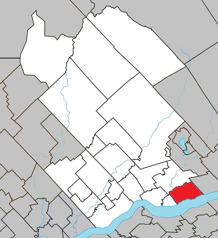 Location of Neuville, Quebec within Portneuf Regional County Municipality.